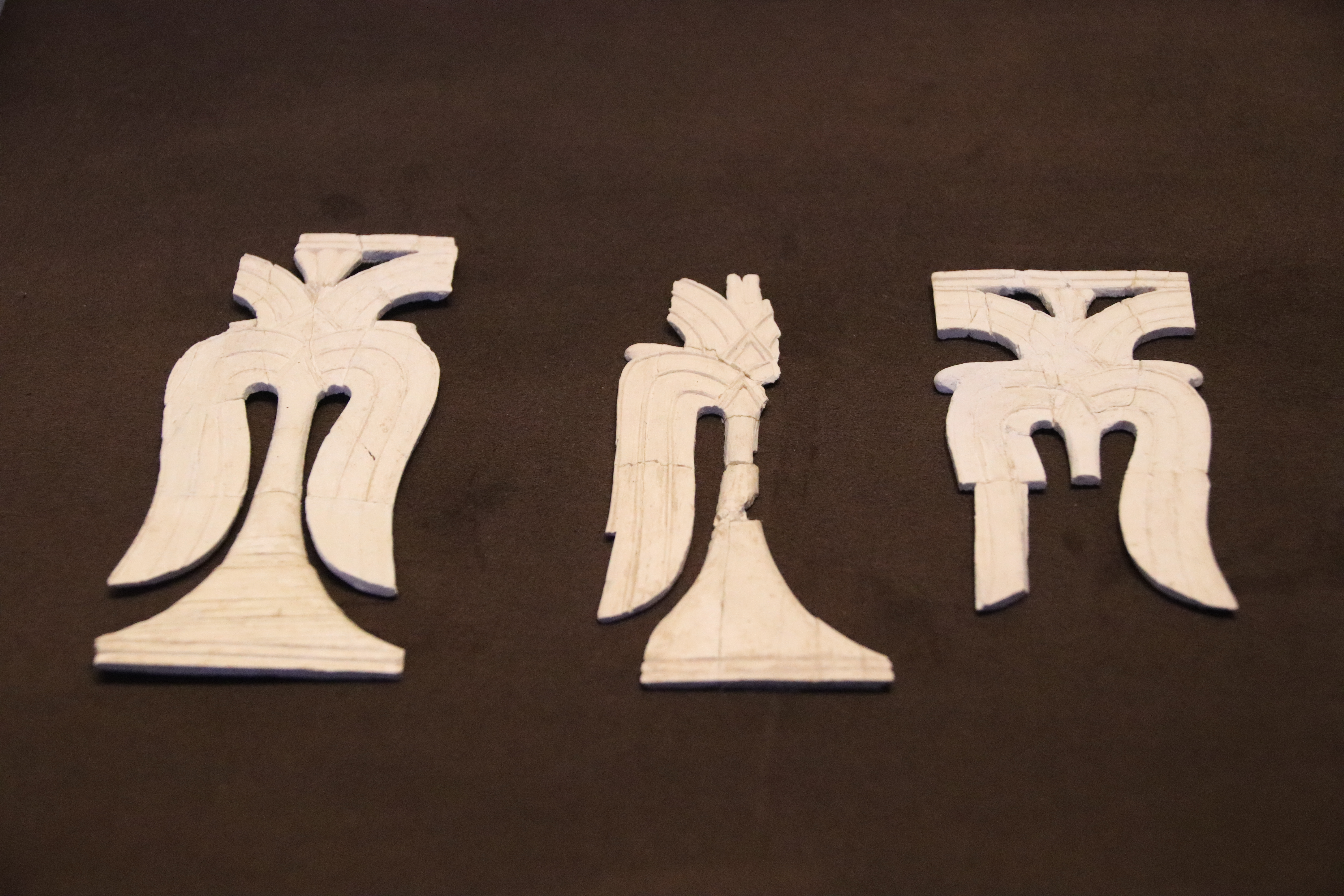 Israel Museum, Jerusalem, Israel. Complete indexed photo collection at